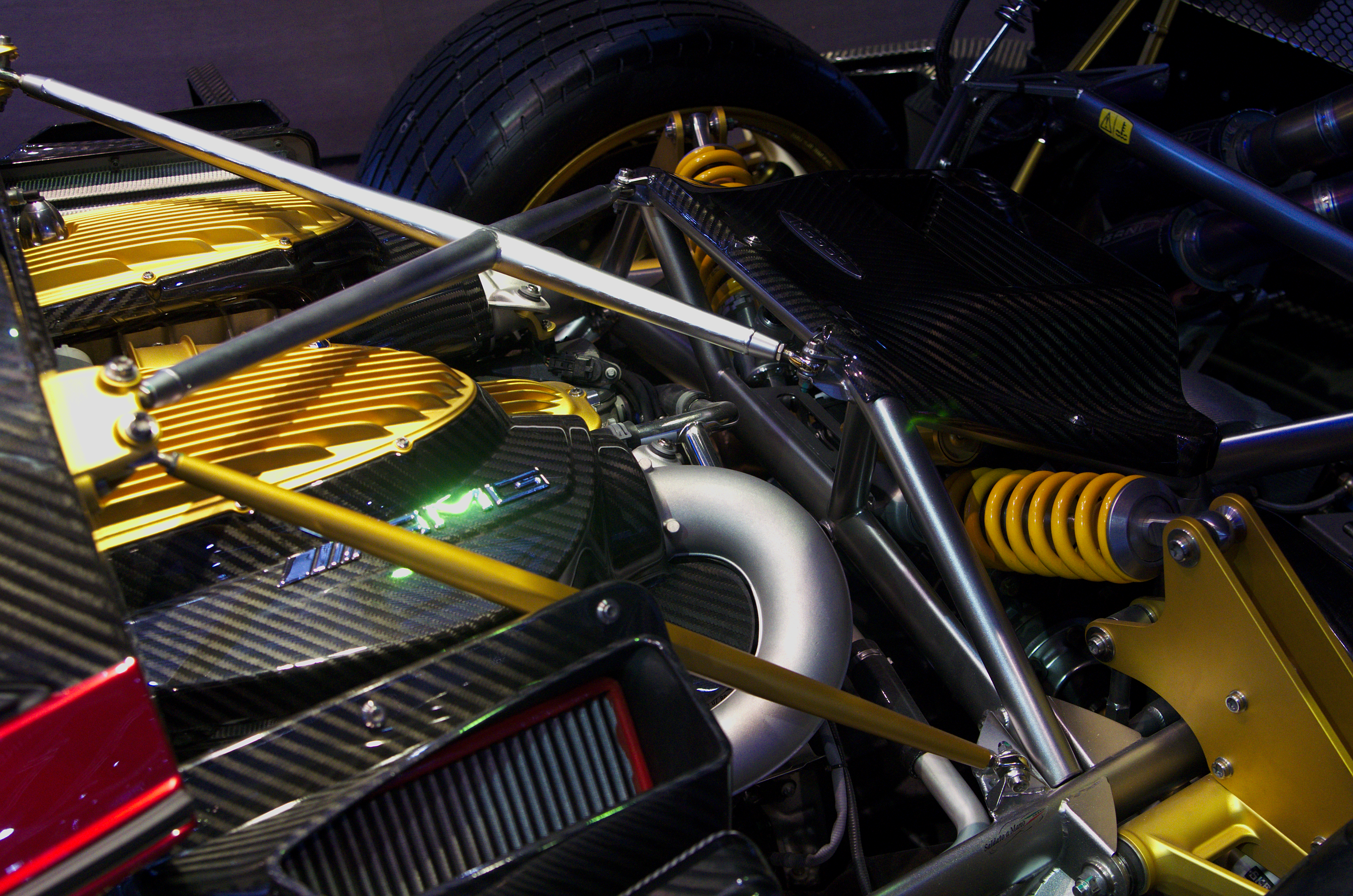 Geneva MotorShow 2013 - Pagani Huayra motor